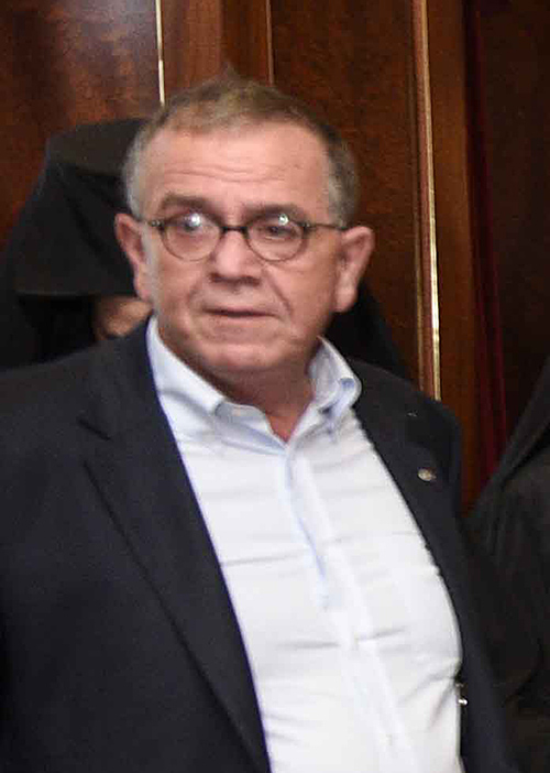 Bishop of Halicarnassos Adrianos